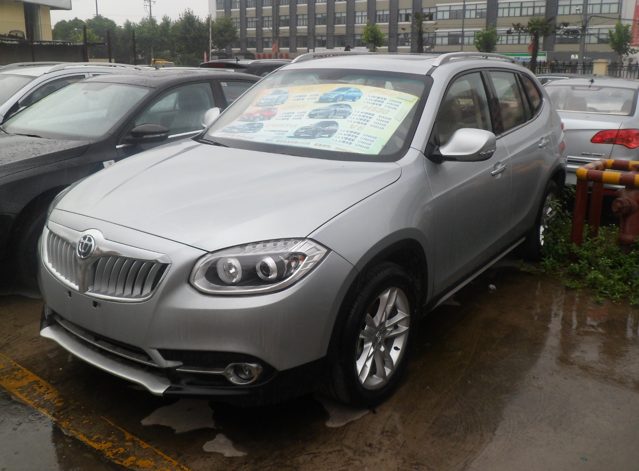 Brilliance V5 photographed in Shanghai, China.